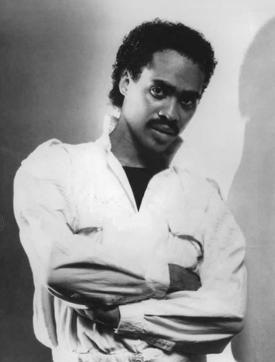 1984 Press Photo Lillo Thomas, soul singer and former Olympic athlete